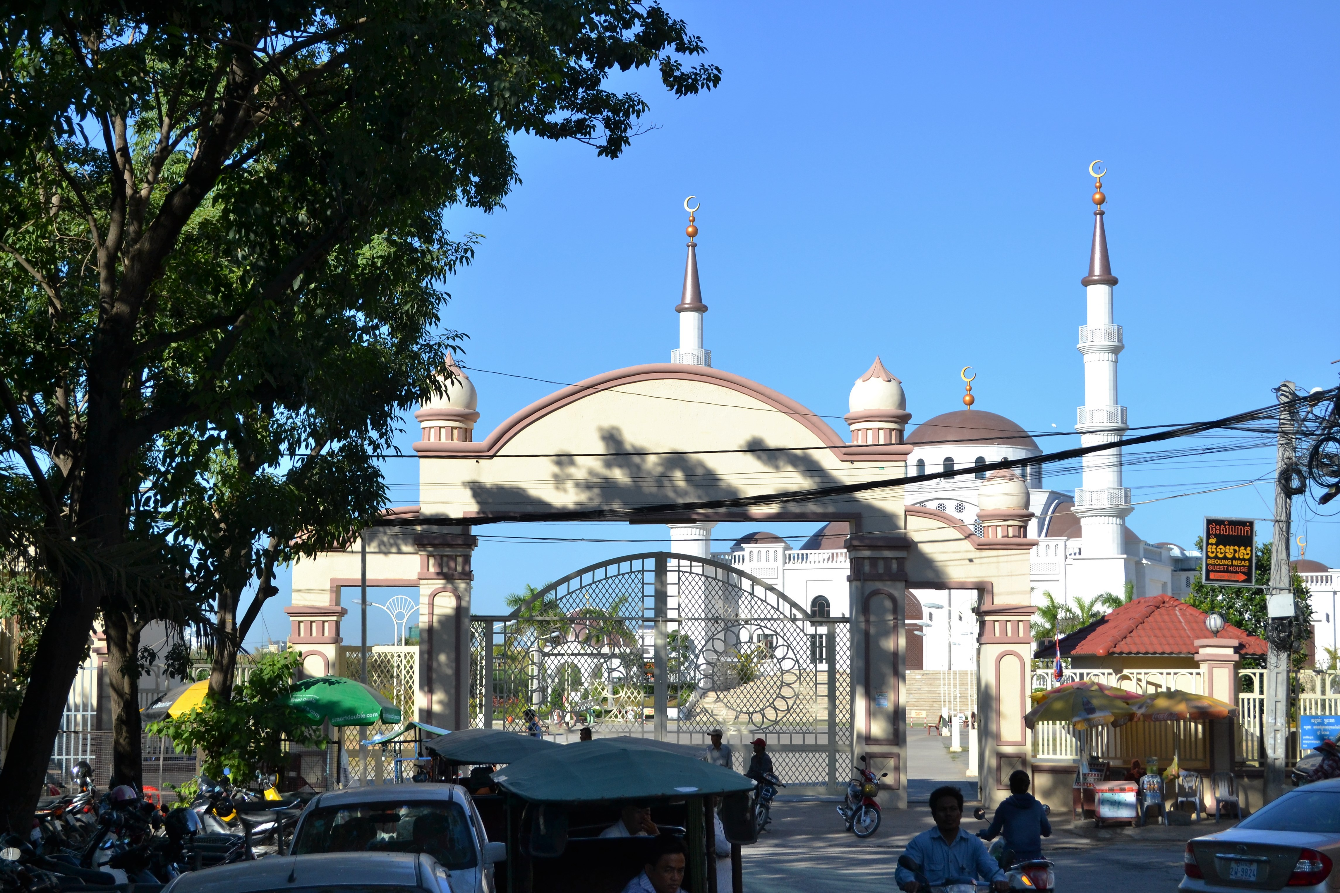 entrance of the Al-Serkal mosque